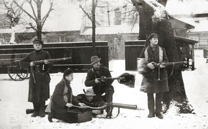 Lithuanian rebels during the Klaipėda Revolt